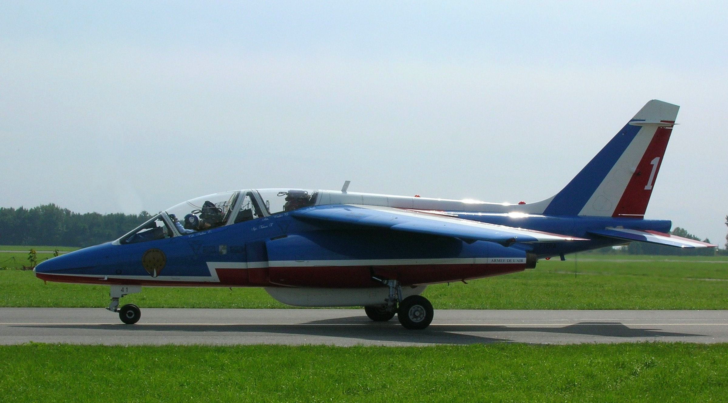 Patrouille de France Alpha Jet taxiing, Radom Airshow 2005.